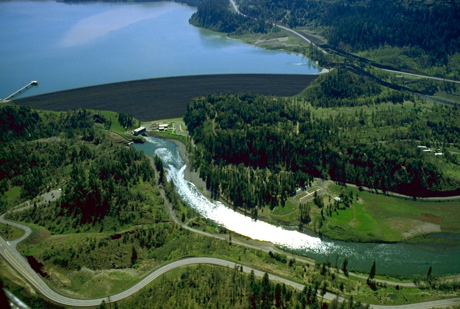 Aerial view of William L. Jess Dam, formerly known as Lost Creek Dam, on the Rogue River in Jackson County, Oregon, USA. The dam impounds Lost Creek Lake. The U.S. Army Corps of Engineers constructed the dam in 1977 for flood control and water supply. The dam was renamed William L. Jess Dam by an act of Congress in 1996. View is to the east. Source picture color-corrected by contributor. Source website attributes this picture to the Library of Congress. Coordinates: 42°40′15.42″N 122°40′28.35″W / 42.67095°N 122.6745417°W